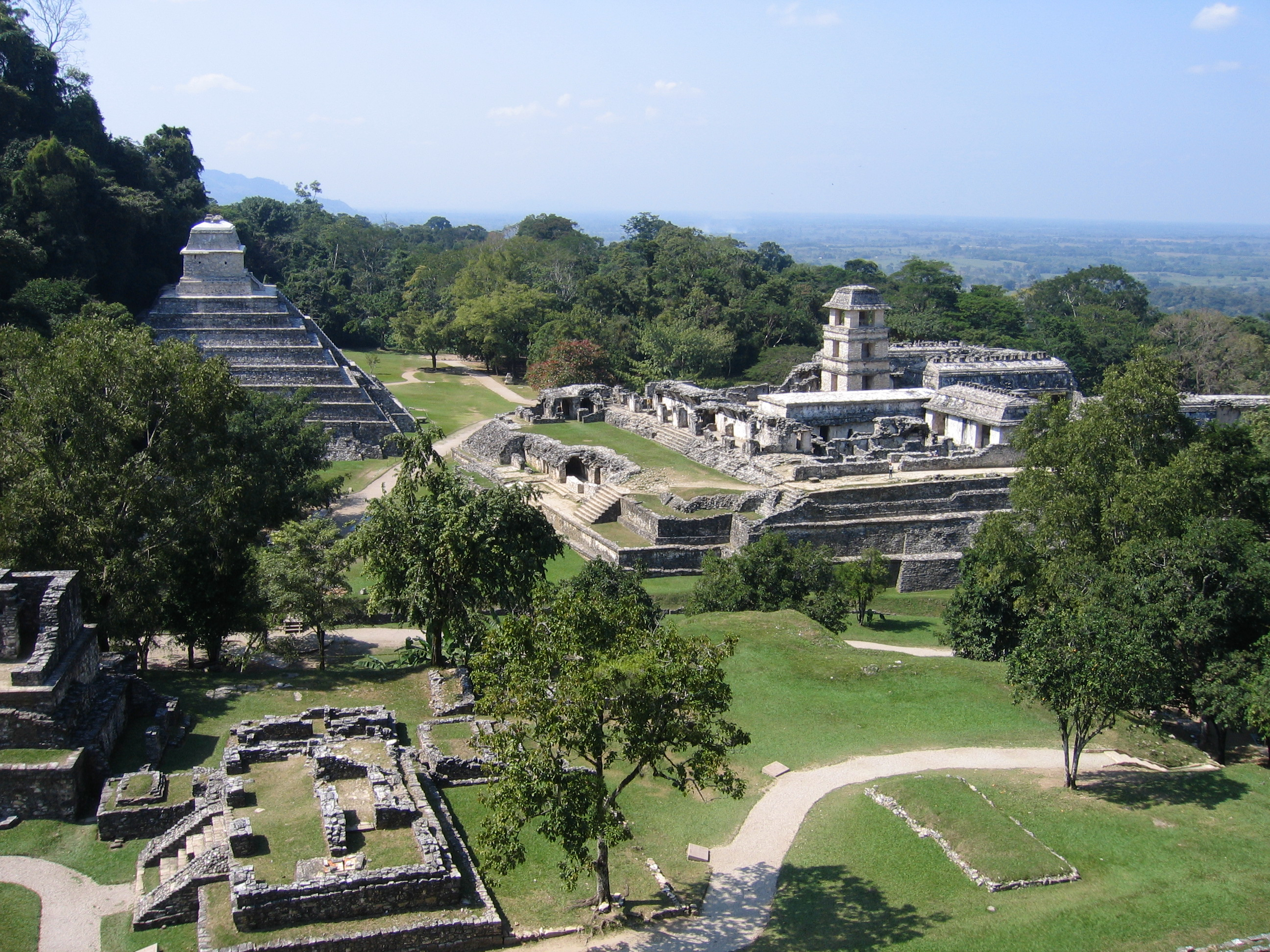 Image from the Mayan ruin site Palenque.